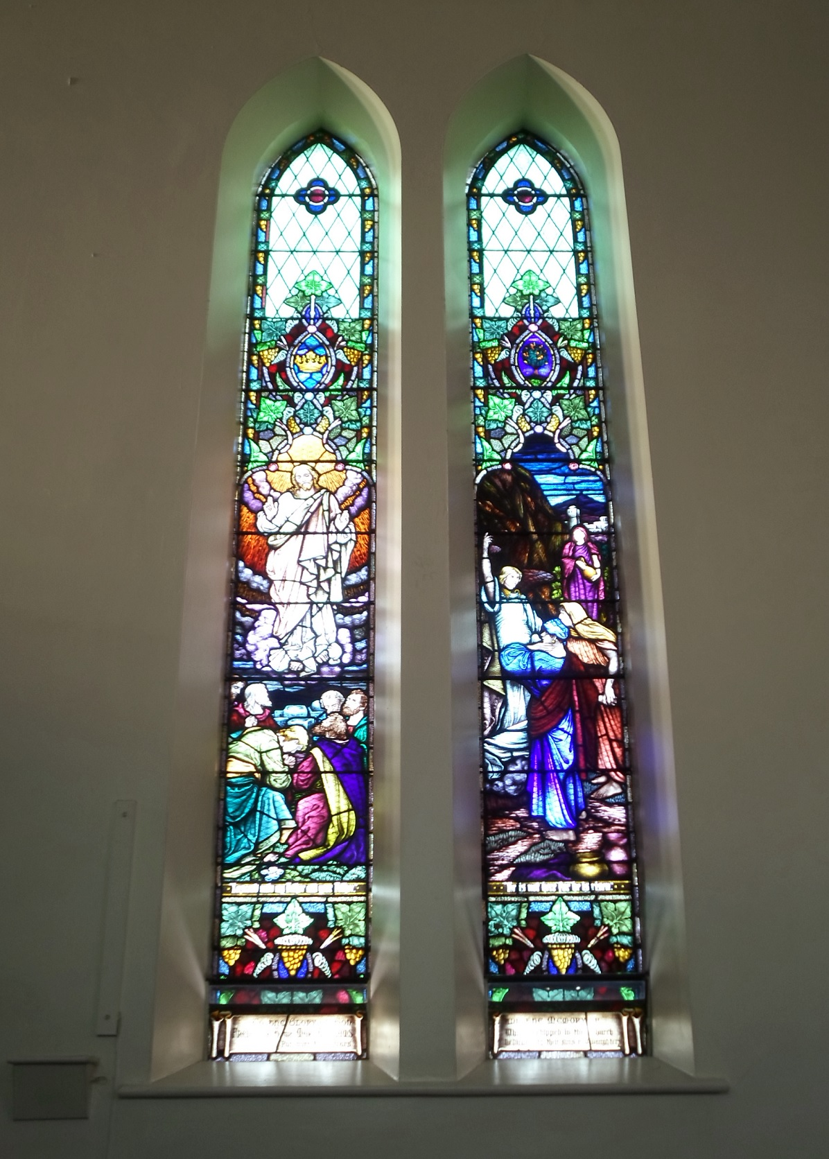 One of the window pairs in St Andrew's Presbyterian Kirk in Launceston, Tasmania displaying biblical scenes (story of Christ). Original windows date from 1850 but pictorial images as shown were installed around 1930s to celebrate centenary of the Presbytery of Van Diemen's Land in 1831